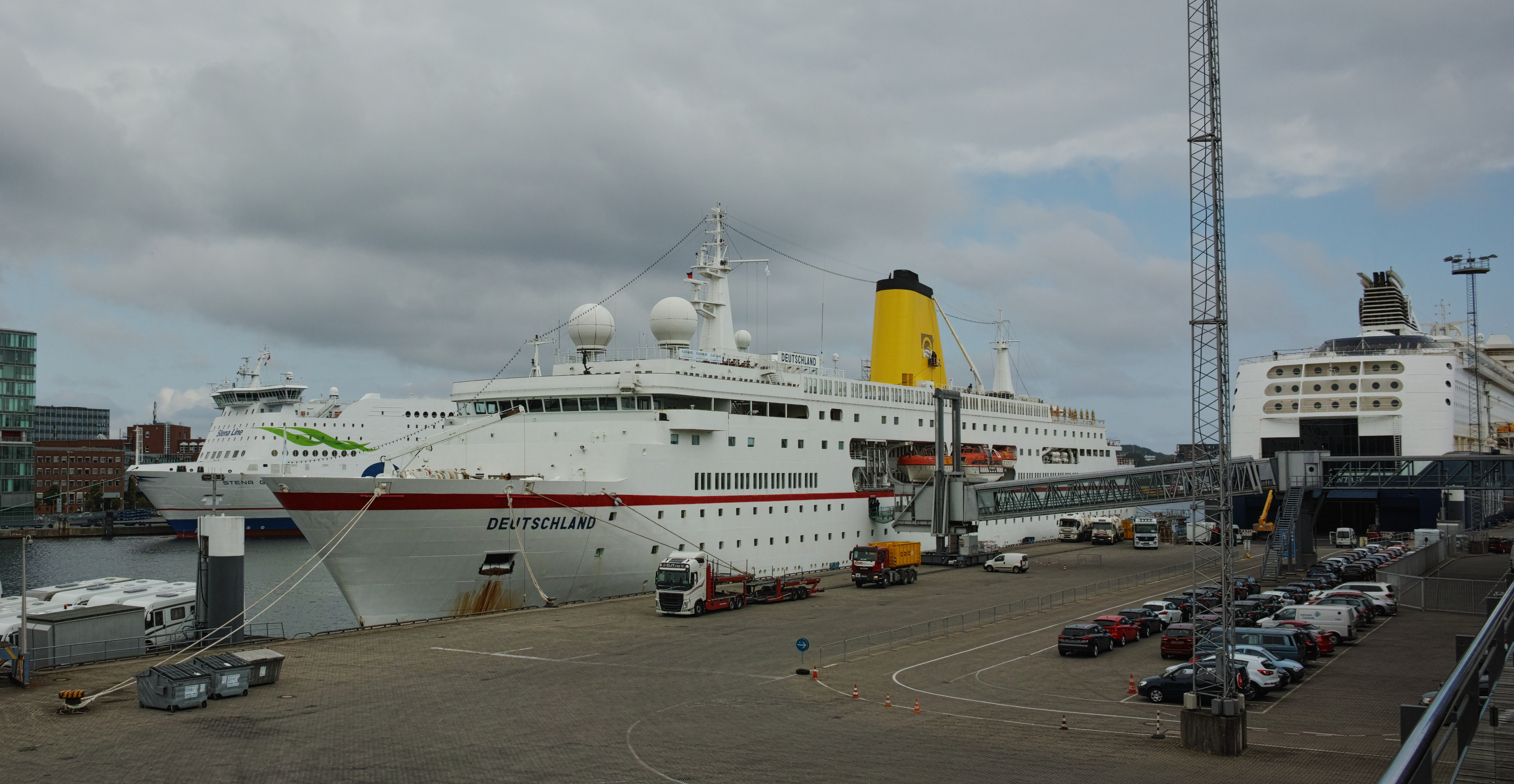 "Stena Germanica", "Deutschland", and "Color Fantasy" in Kiel on 9 June 2015. The "Deutschland", already sold to new owners, is used in summer as a replacement ship by the operator Plantours, standing in whilst their vessel "Hamburg" is being repaired. When the picture was taken, the ship was due to leave for a cruise to Svalbard (Spitsbergen) in a few hours, and painters were still in the process of applying the operator's logo to the funnel.